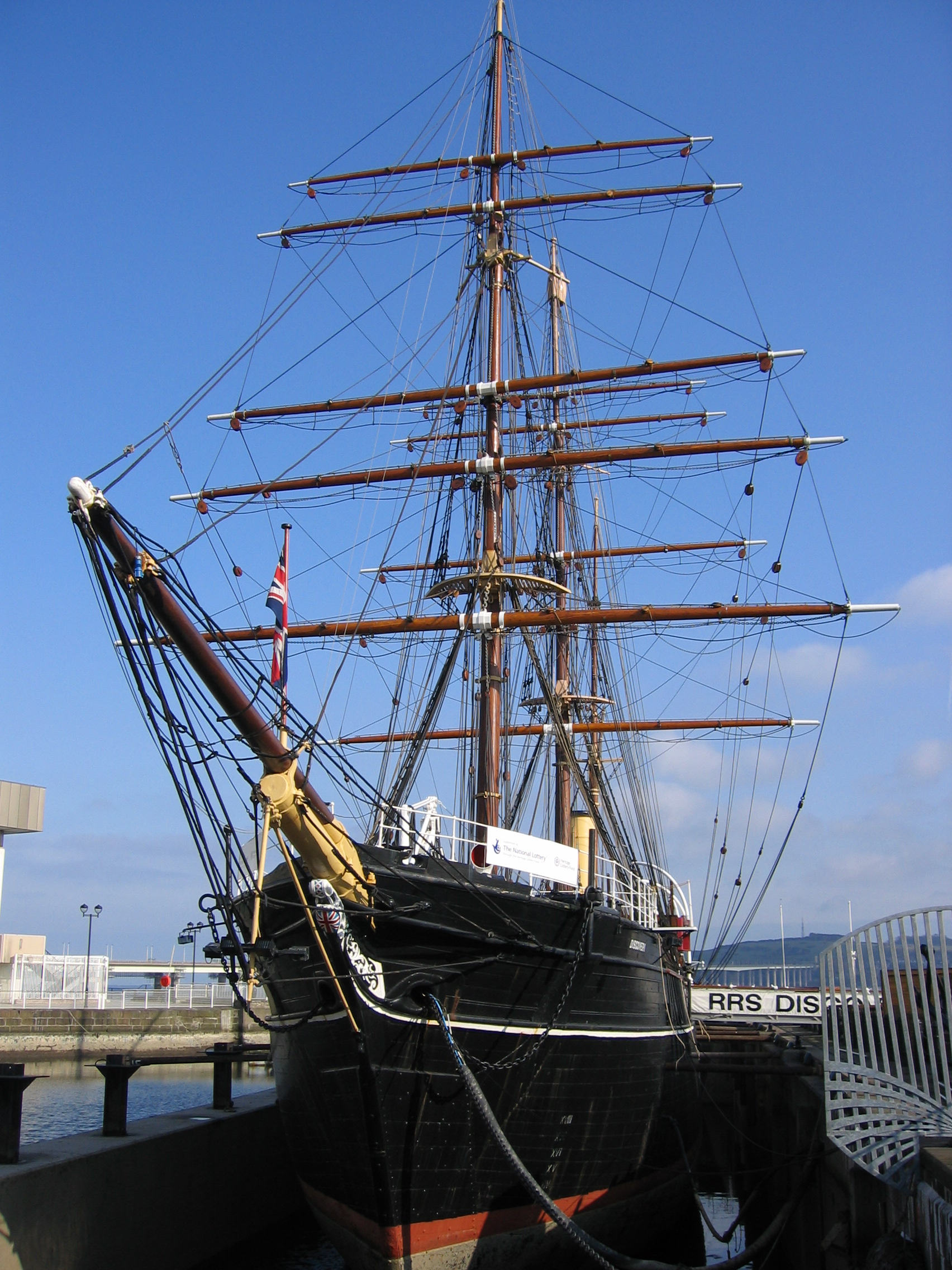 2007 - Trip to Dundee